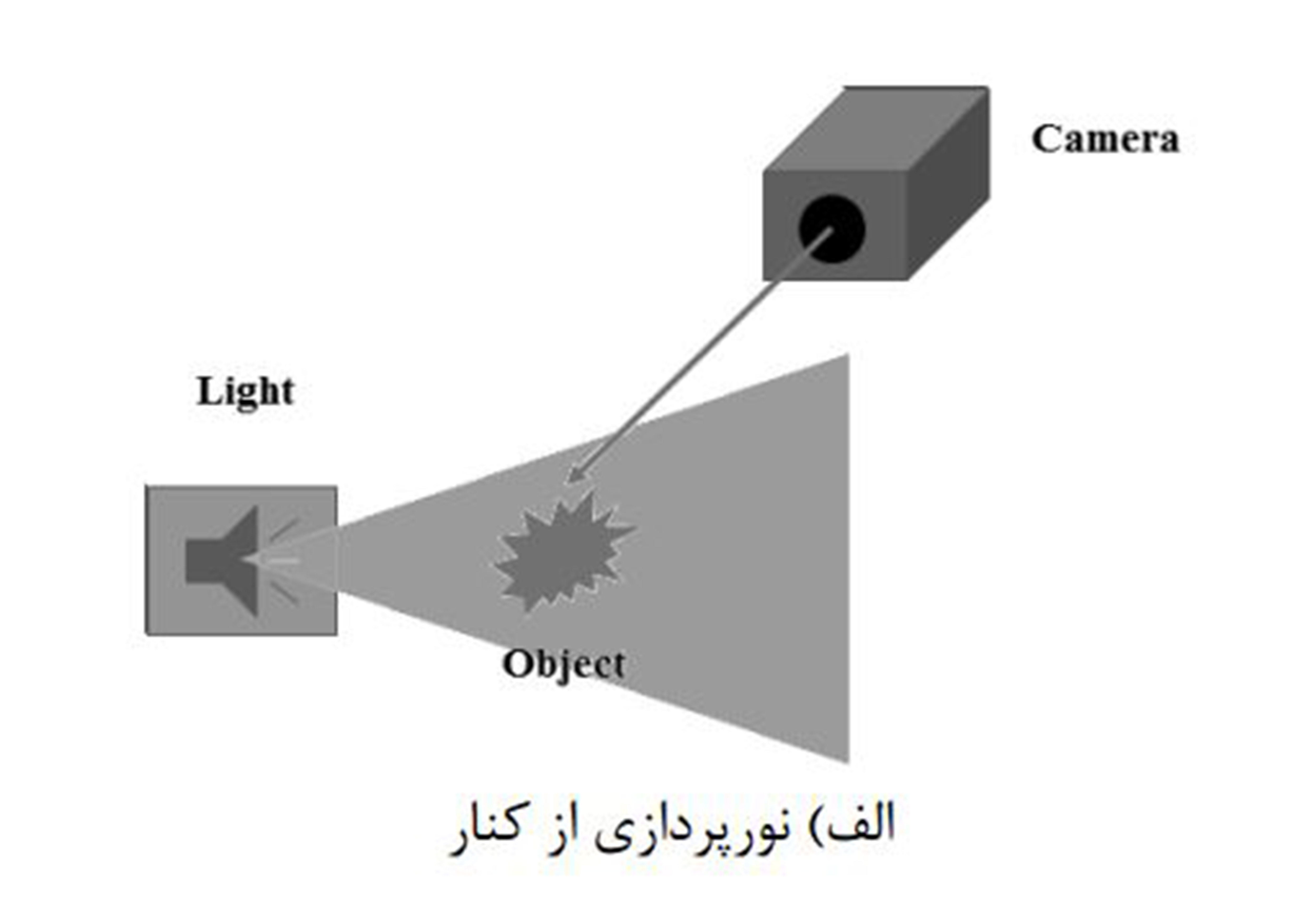 Particle Image Velocimetry